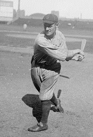 Chapman, a baseball player for Cleveland, holding bat after swinging and standing on field at Comiskey Park（1916）